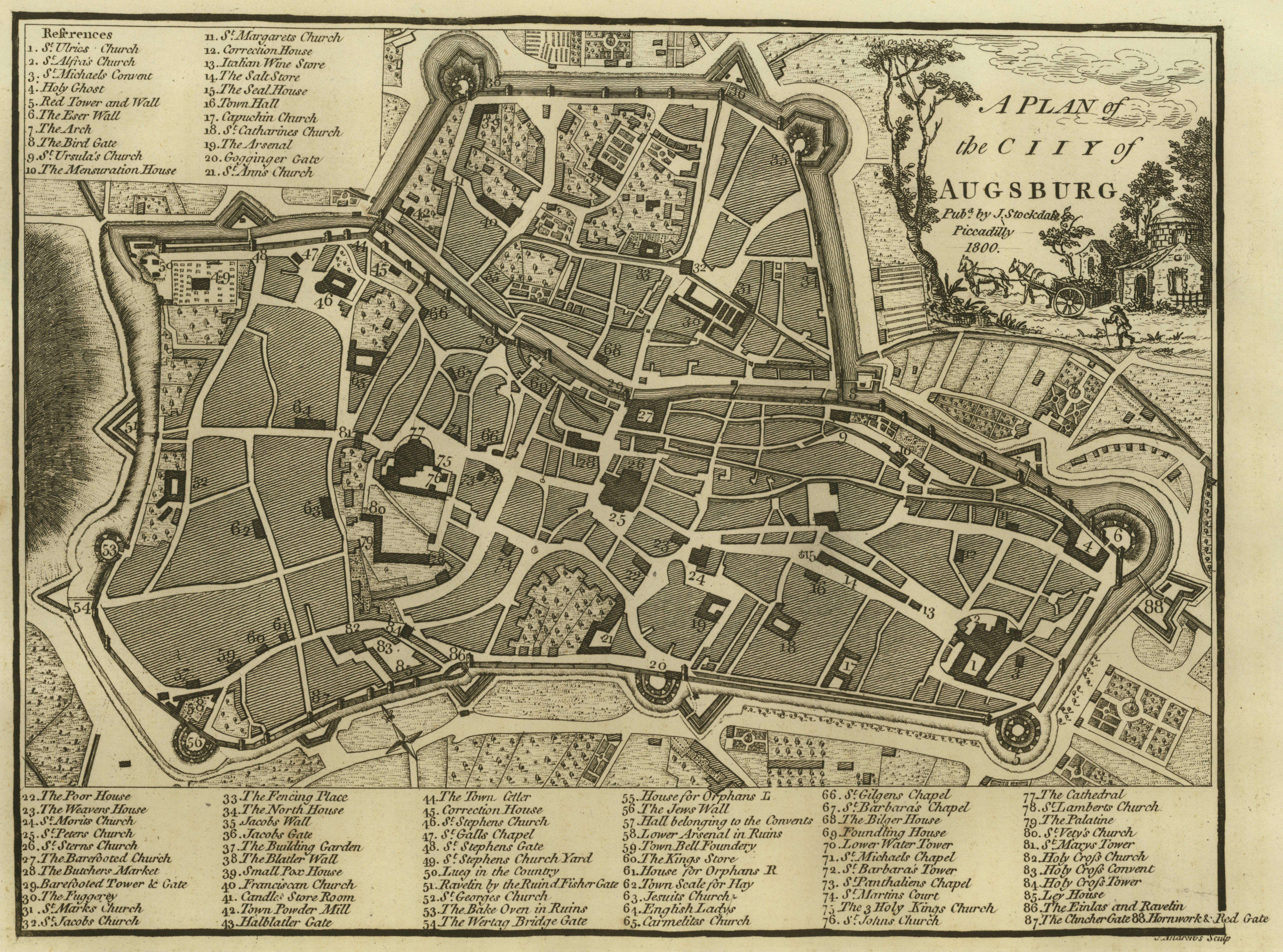 Map of the city of Augsburg. Copper engraving